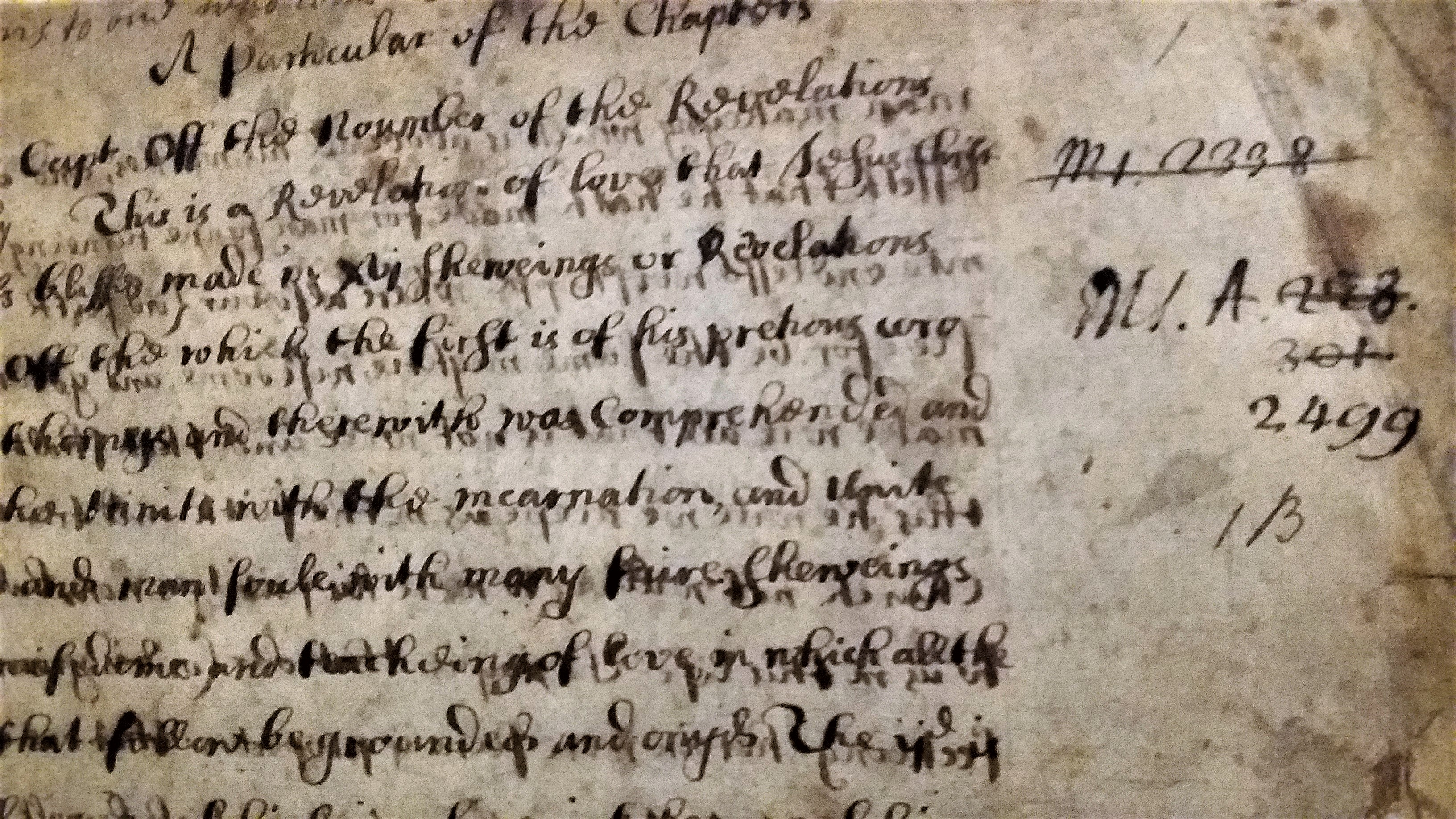 Part of Chapter 1 of Revelations of Divine Love